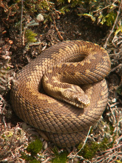 Vipera berus female Veluwe, the Netherlands